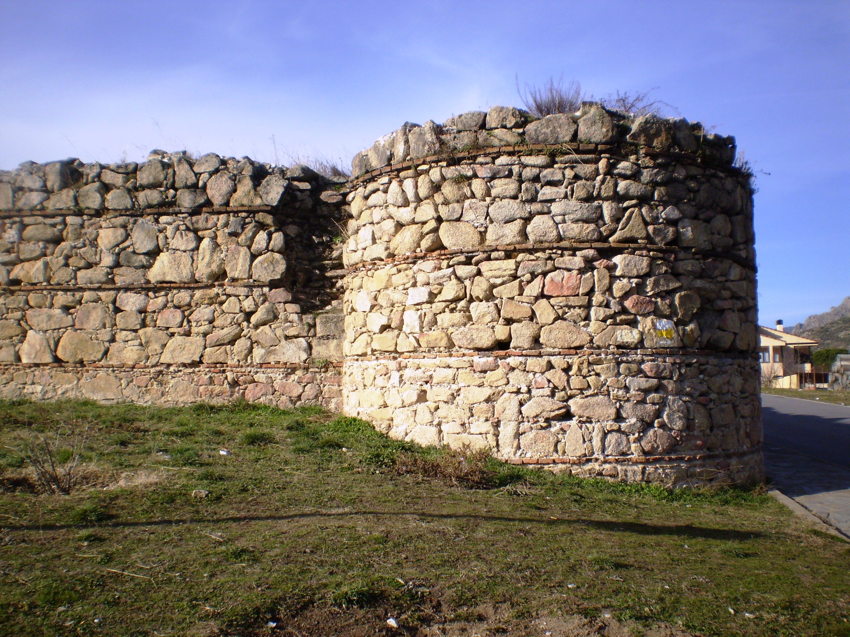 Old castle in Manzanares el Real, Madrid, Spain